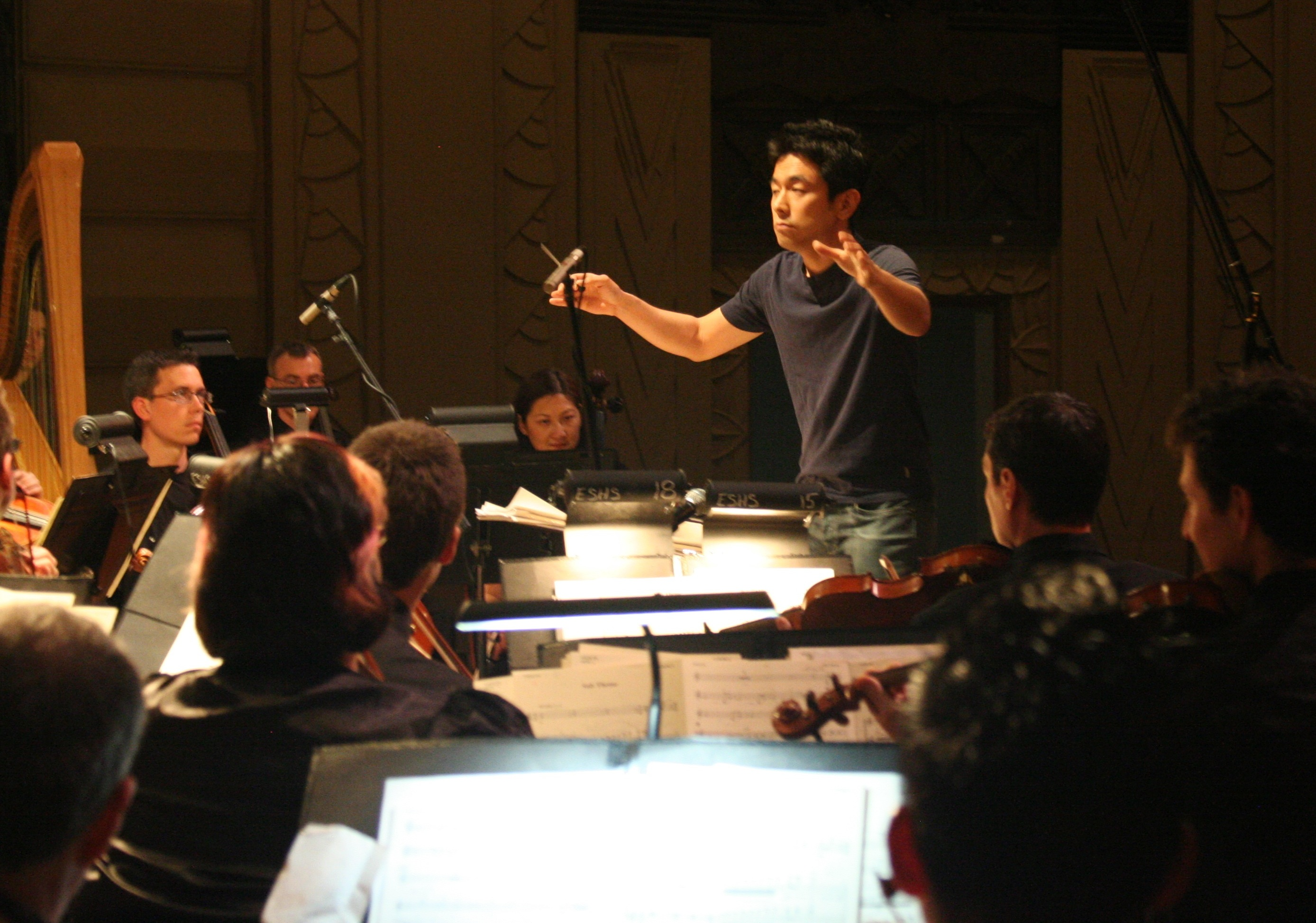 Composer Wataru Hokoyama conducting the Golden State Pops Orchestra, 2009.